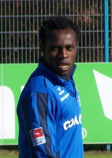 Eke Uzoma, TSV 1860 München, training